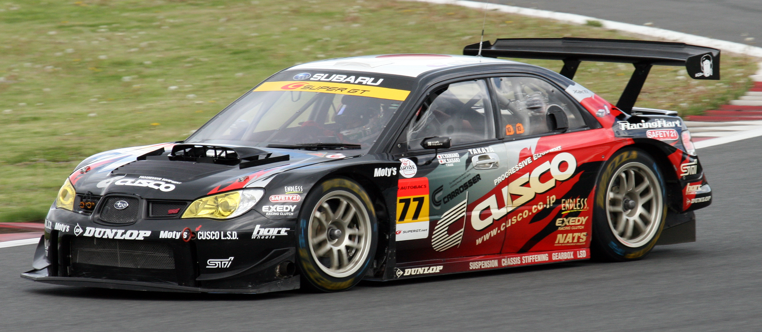 Super GT 2008 Rd.3: Kouta Sasaki driving the "Cusco Dunlop Subaru Impreza".